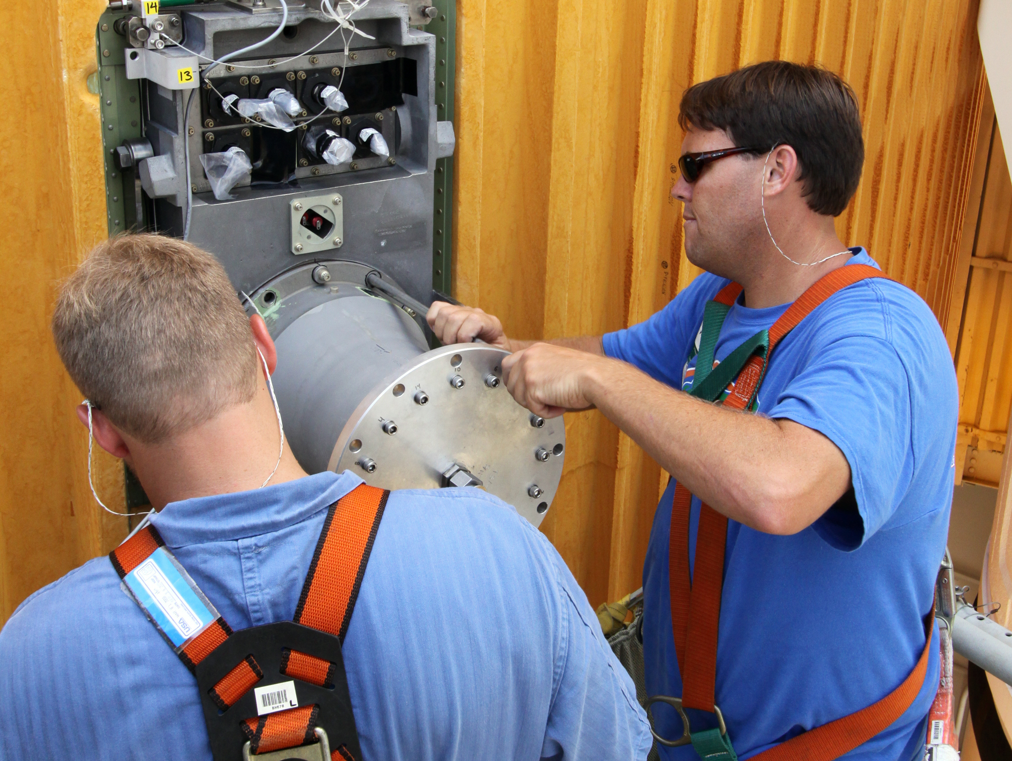 Technicians inspect the Ground Umbilical Carrier Plate (GUCP) on Space Shuttle Endeavour's external fuel tank following a scrub of STS-127 due to elevated hydrogen levels at this connector.